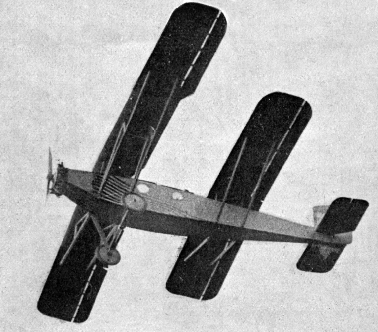 Albessard Triavion in flight. Photo from L'Aéronautique March,1928